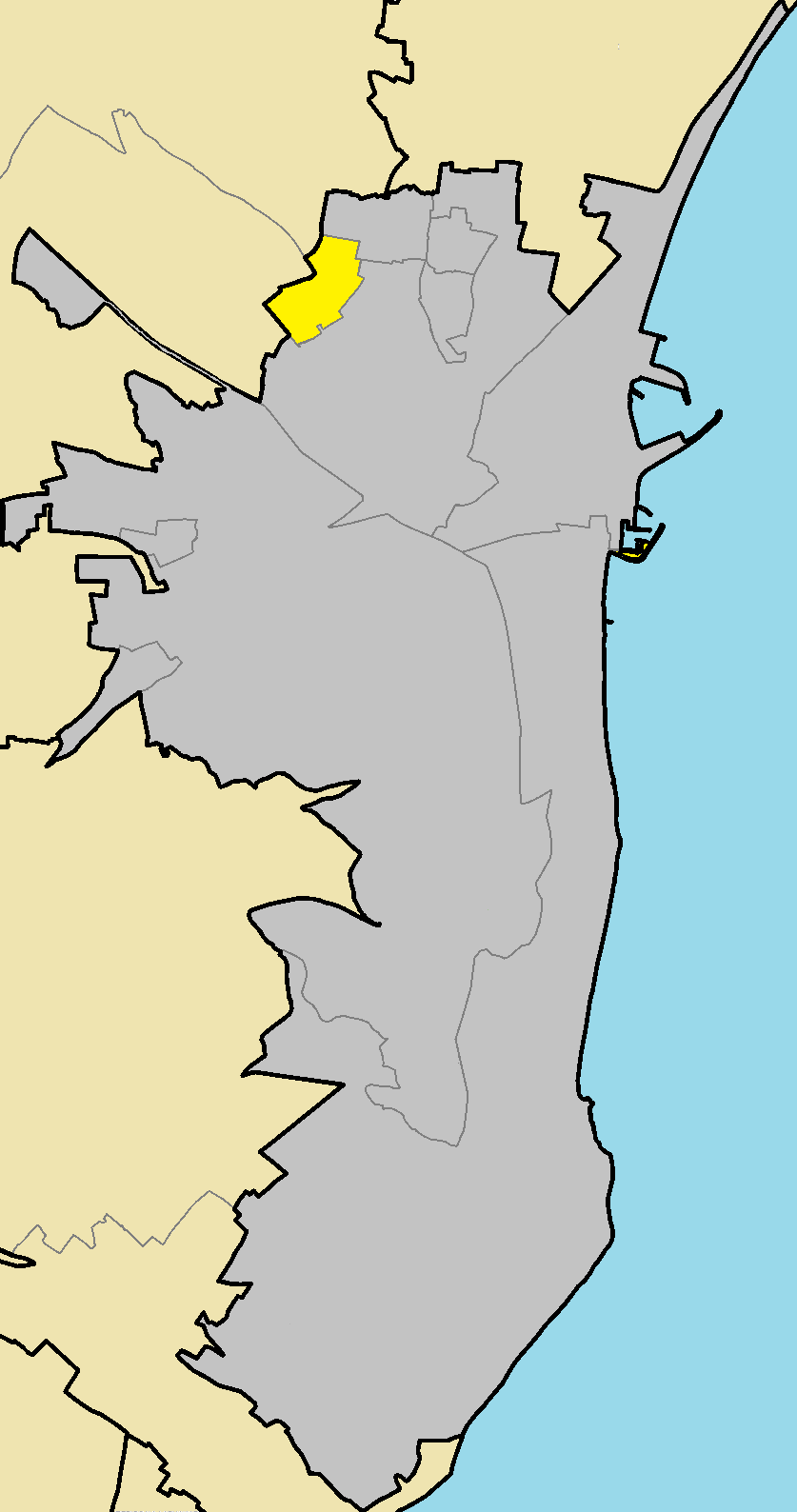 Tsakilero in Larnaca Municipality.